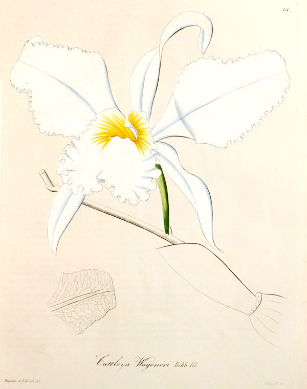 Illustration of: Cattleya mossiae (as syn. Cattleya wageneri)